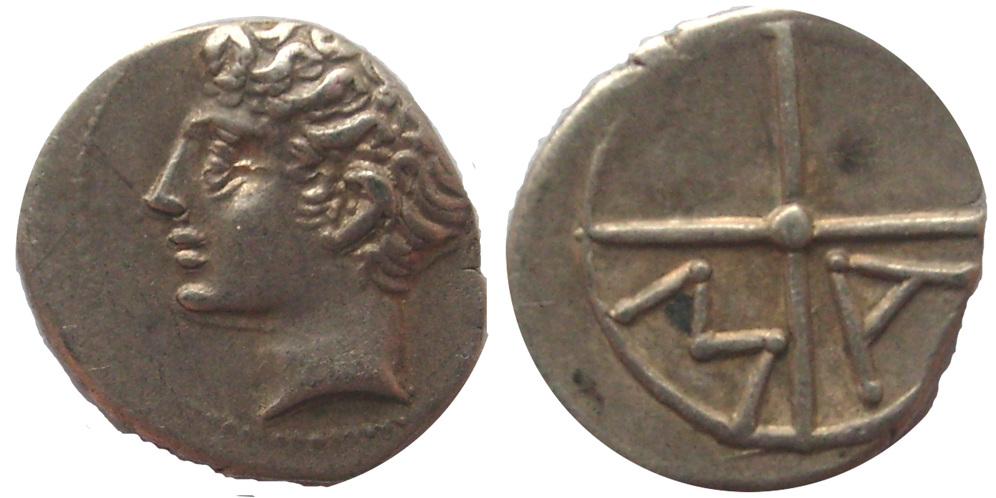 Obole de Marseille Massilia Bare head of Apollo left Wheel with four spokes. Depeyrot, Marseille 31; SNG Copenhagen 723-8. Description Obole de Marseille Massilia Date12 April 2009SourceOwn work by the original uploaderAuthorJ. Courtois (Ivlianvs) Obole de Marseille Massilia